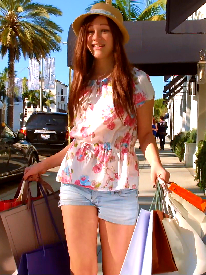 Joelle photographed wearing a brunette wig during filming of her "Big In L.A." video, in 2012